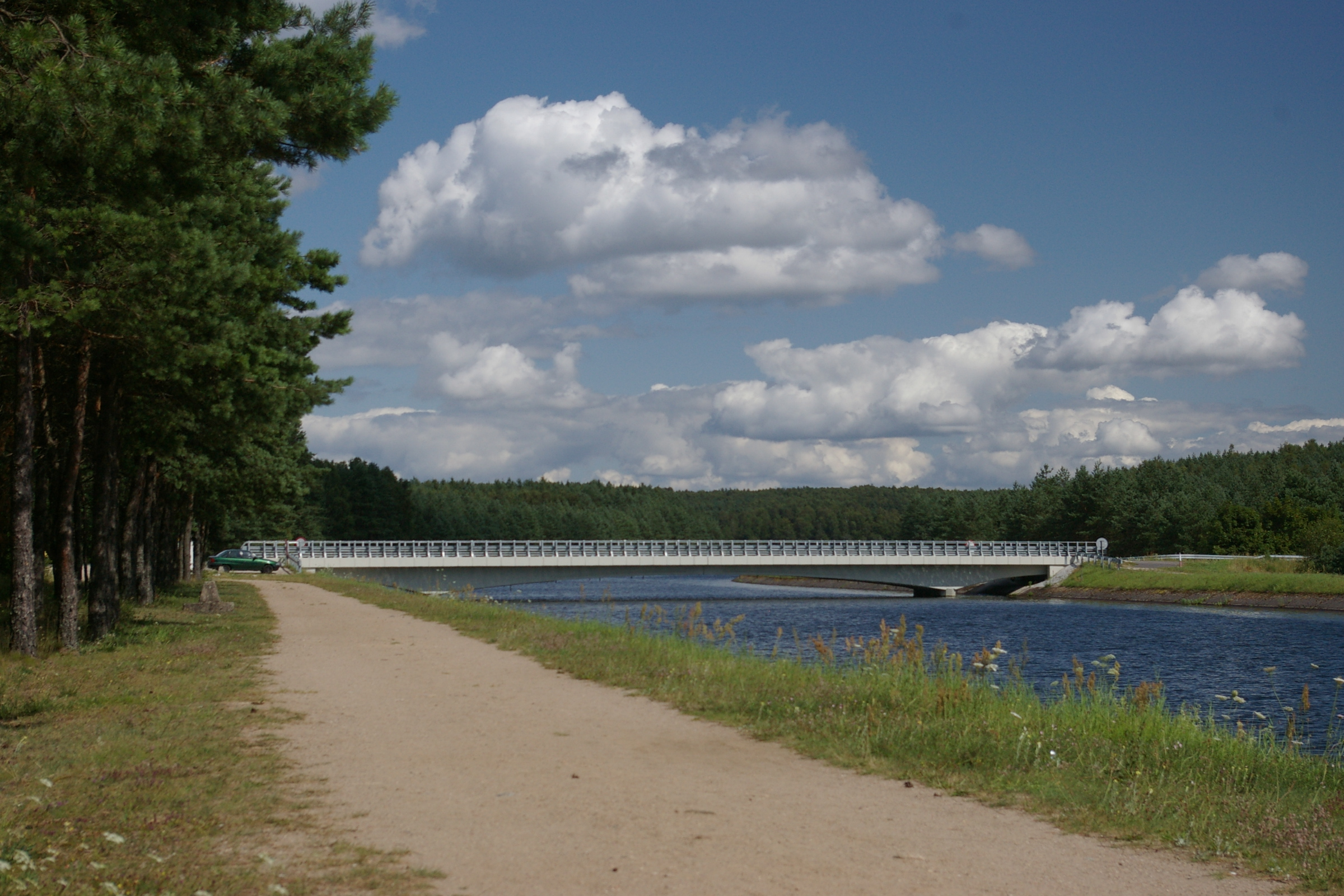 The road 205 - a bridge on the J.Kamienne - J. Kwiecko canal.